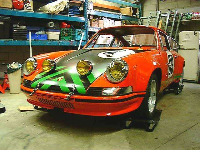 911 with selective yellow headlights